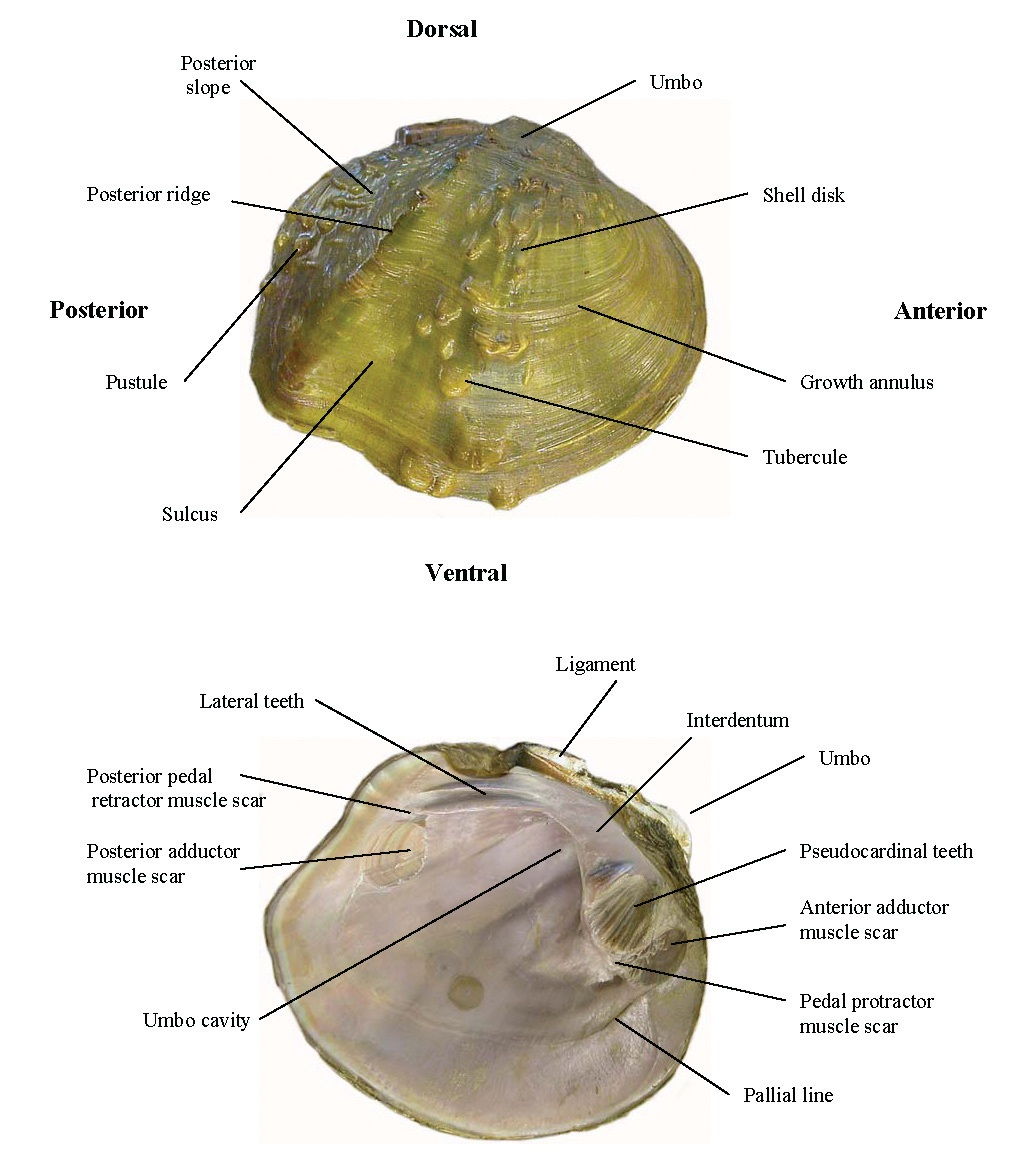 Diagram of Freshwater Mussels